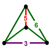 Bitruncated_120-cell vertex figure